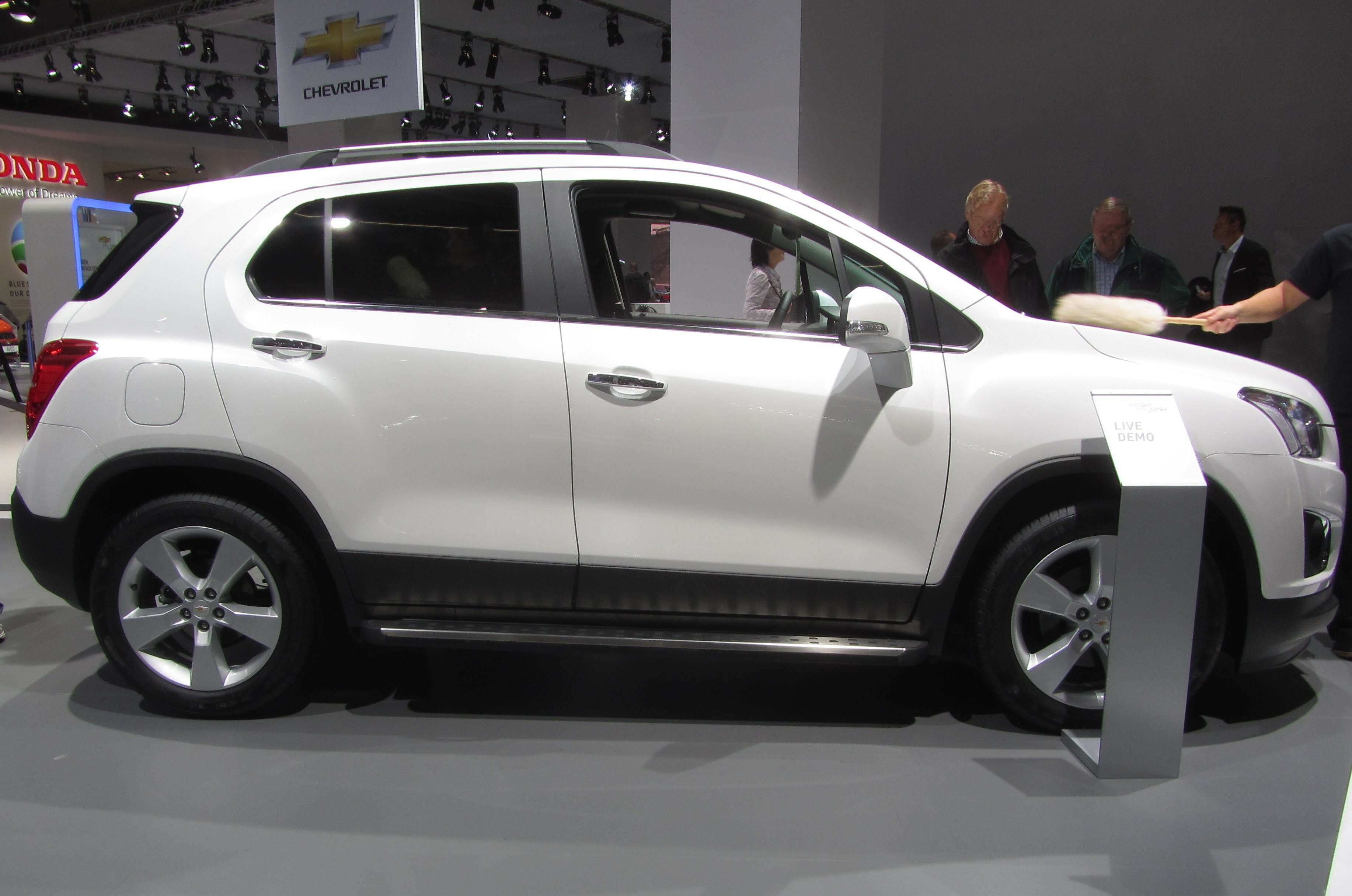 Right side view of a white Chevrolet Trax as seen on the IAA 2013 (aka 'Frankfurt Motor Show')